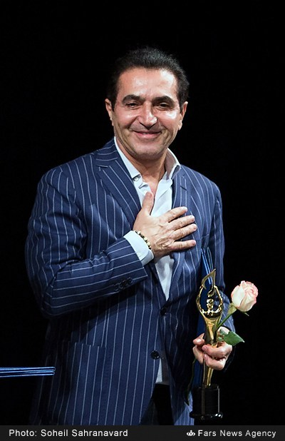 Fereydoun Asraei